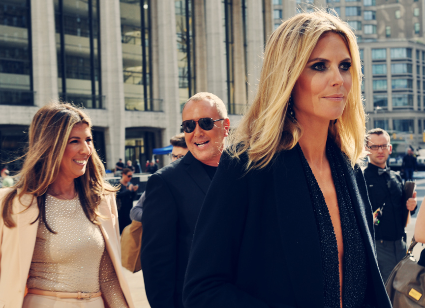 Heidi Klum, Michael Kors, and Nina Garcia - photographed by Jiyang Chen